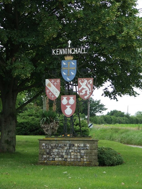 Kenninghall village sign Village sign Kenninghall Norfolk.